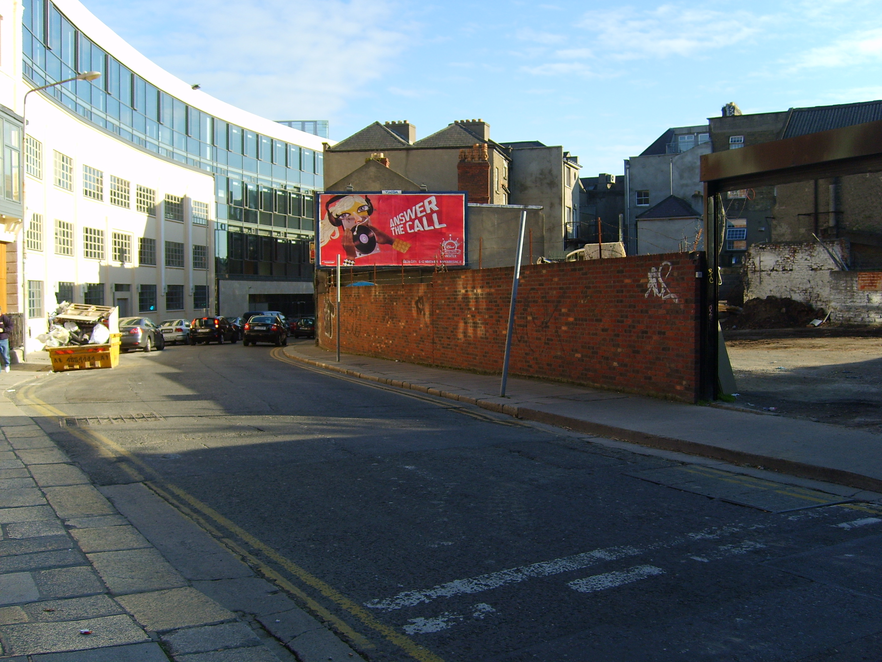 Digital photo of Stephen Street Upper, Dublin